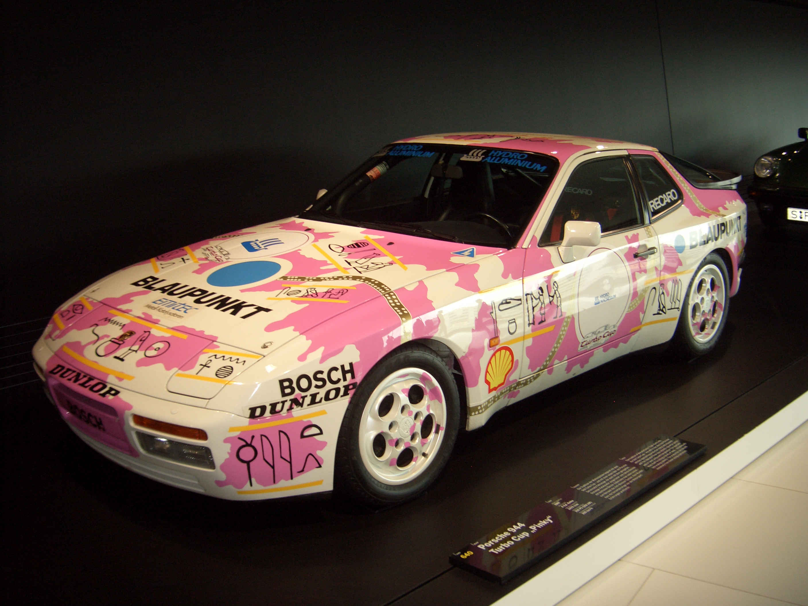 see filename for despcription - seen at PORSCHE MUSEUM in Stuttgart, Germany